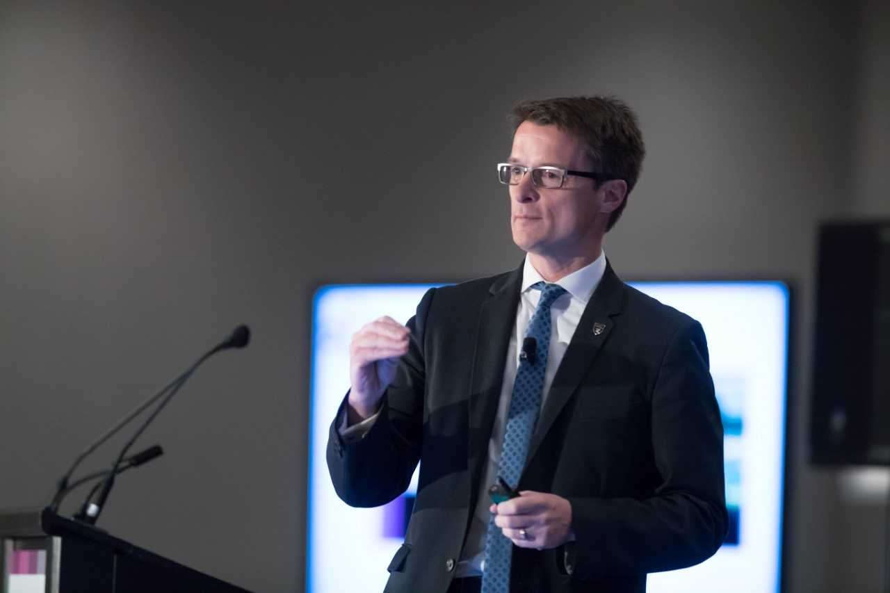 DCI talk in Toronto